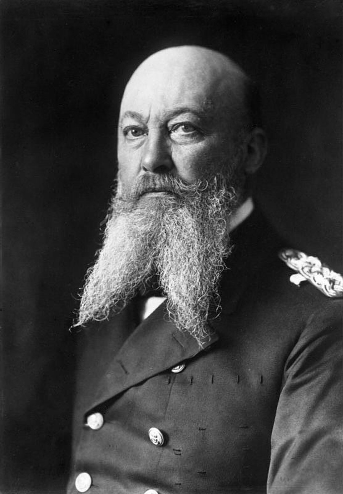 "Builder of the German fleet" Grand Admiral Alfred von Tirpitz